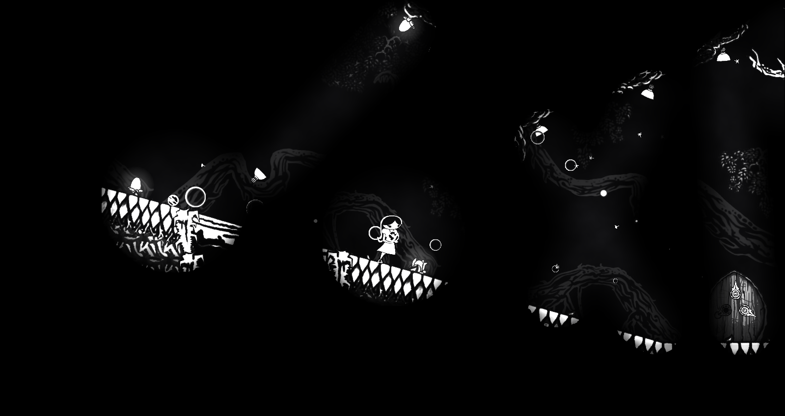 The forest's world in "Closure", a video game